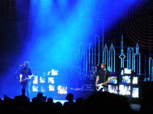 Jimmy Eat World on April 20, 2005 in the Bender Arena, Washington, DC.